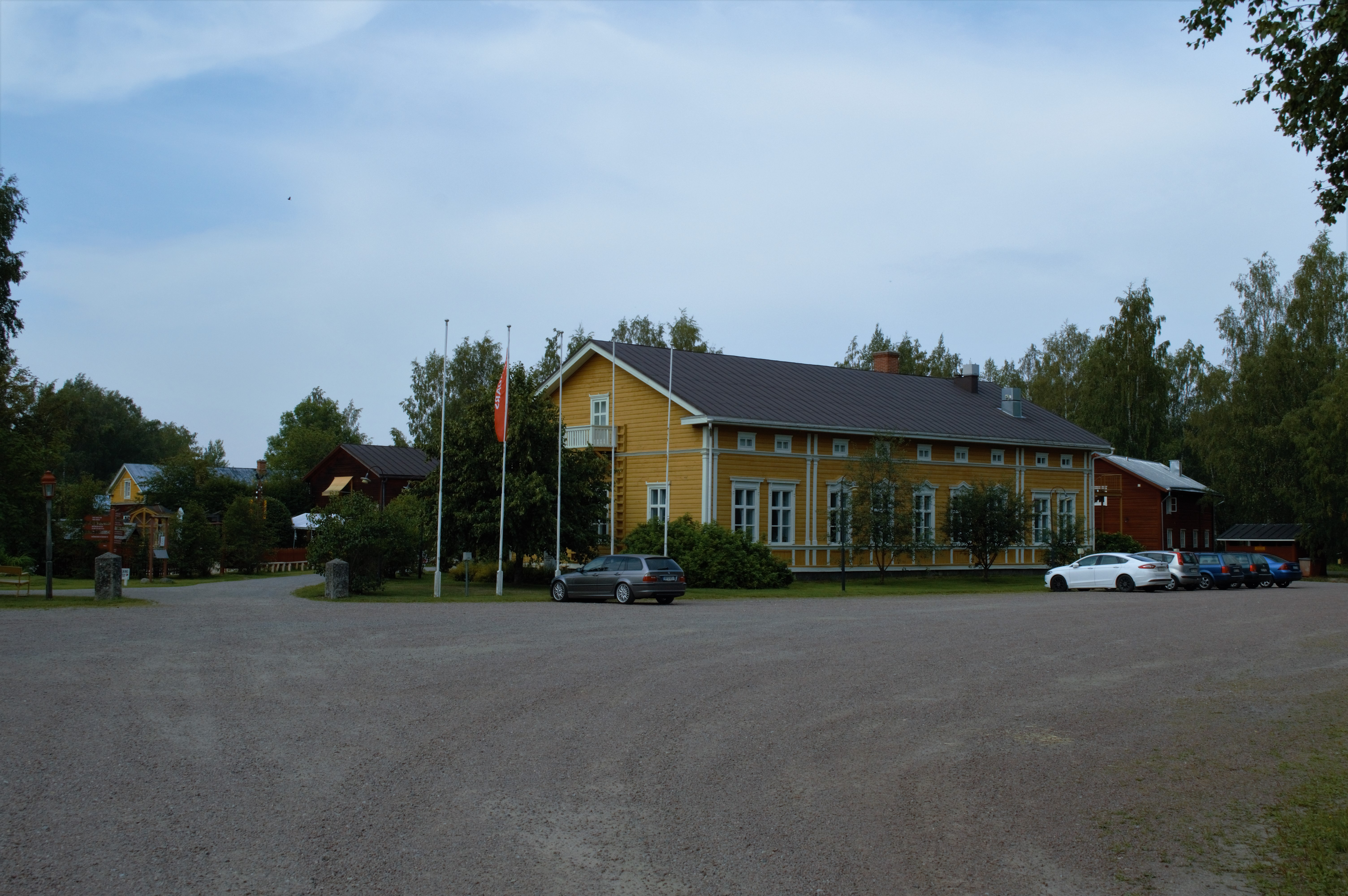 In front Jarl Hemmer's home at Stundars open-air museum